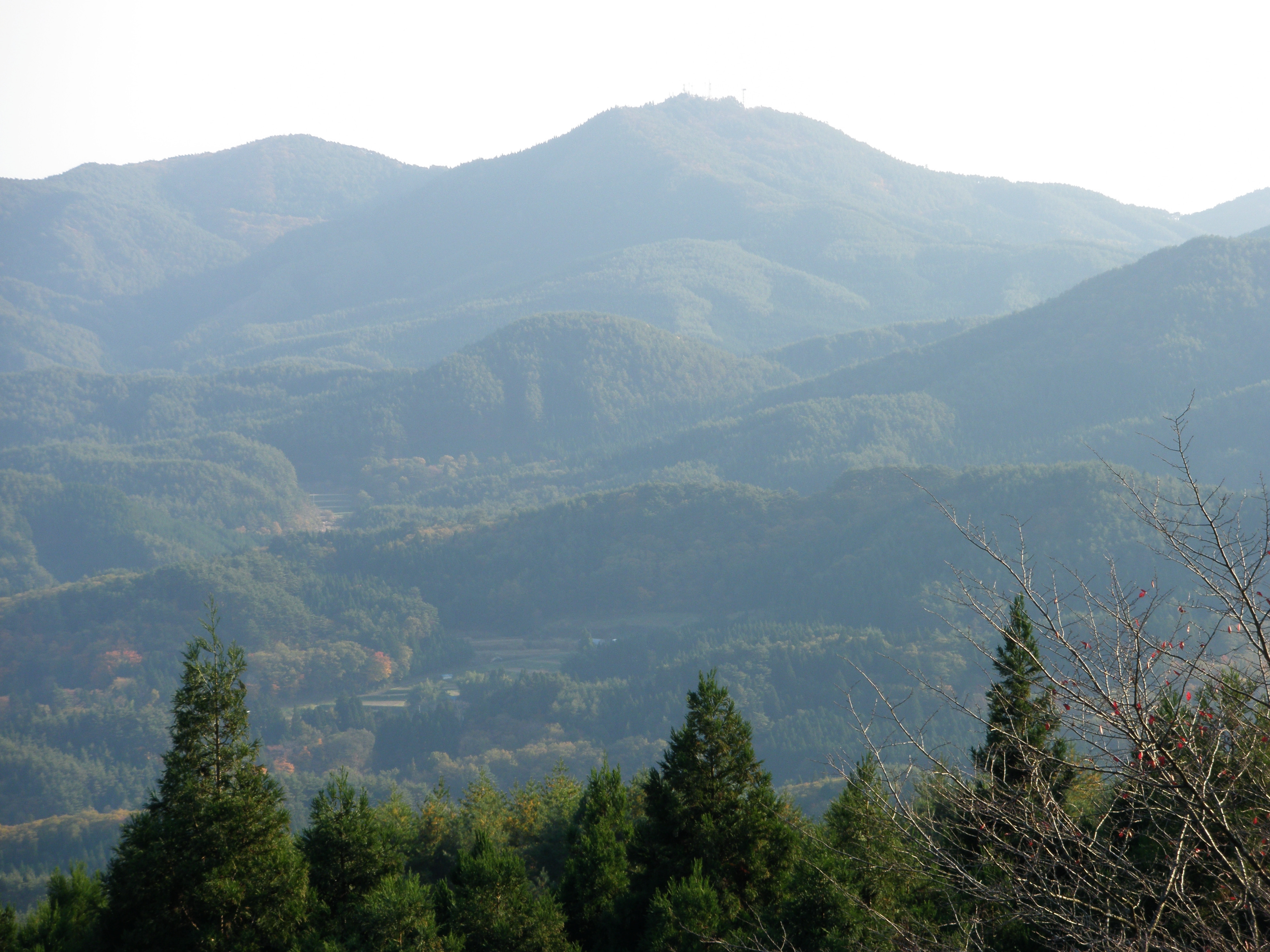 Mount Chonomori (Chonomori-san) seen from the north, in Kesennuma, Miyagi Prefecture, Japan.